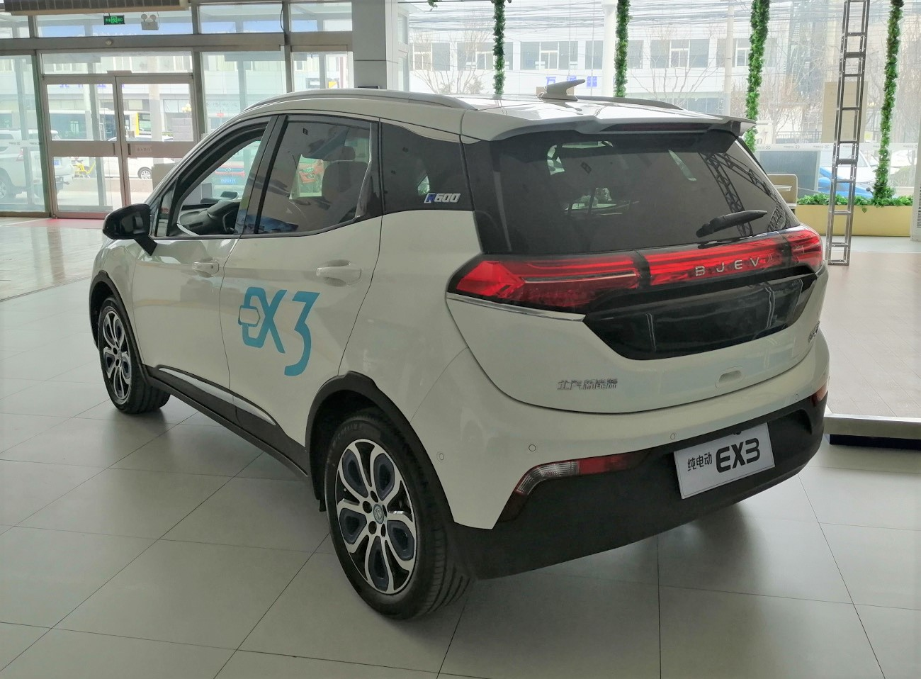 BJEV EX3 photographed in Beijing, China.